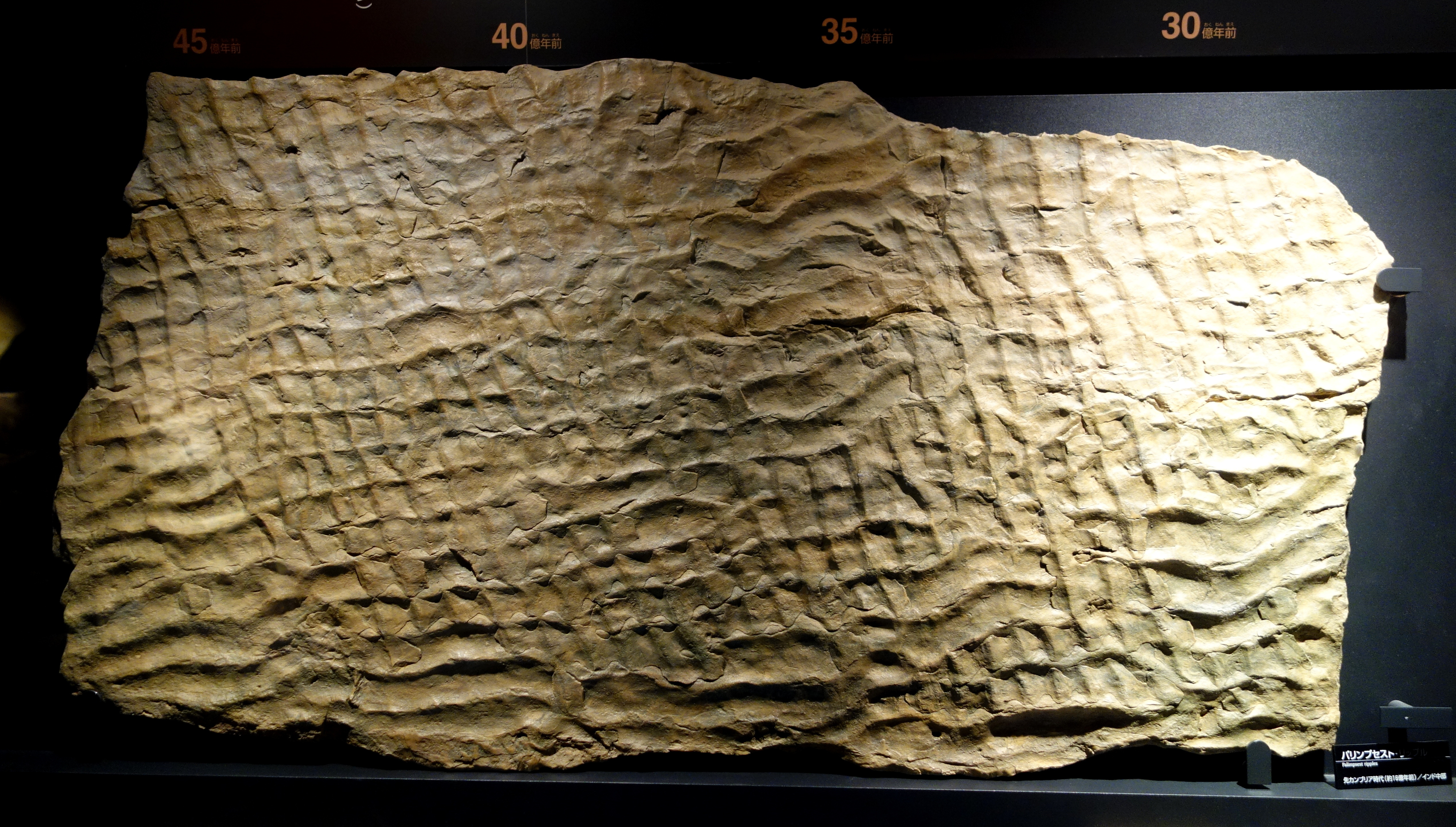 Exhibit in the National Museum of Nature and Science, Tokyo, Japan.